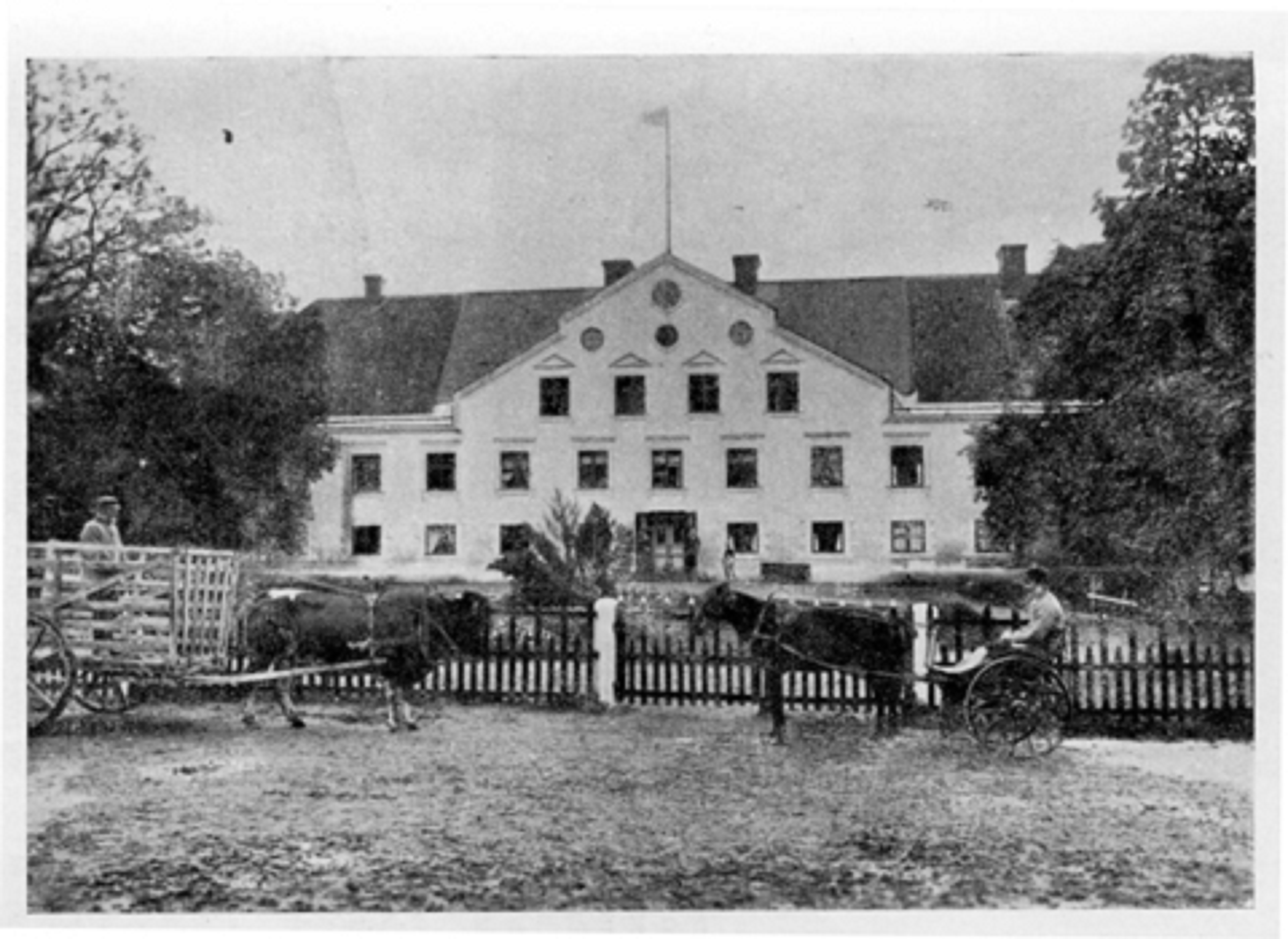 rosendal manor, gotland